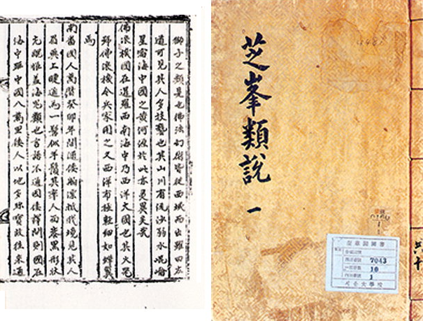 Yi Su-gwang's Jibobngyuseol